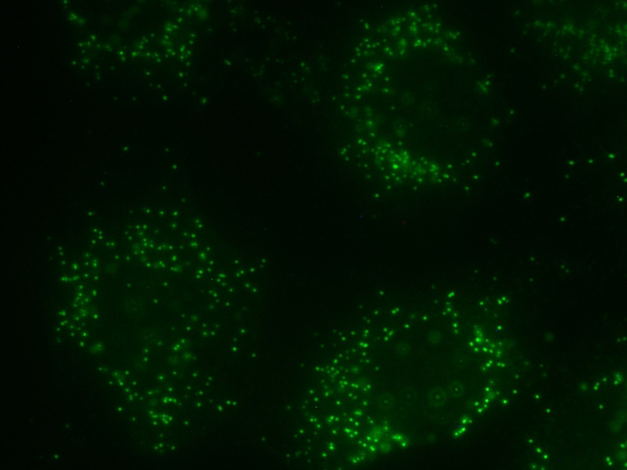 Peroxisome in rat neonatal cardiomyocyte staining The SelectFX Alexa Fluor 488 Peroxisome Labeling Kit directed against peroxisomal membrane protein 70 (PMP 70)